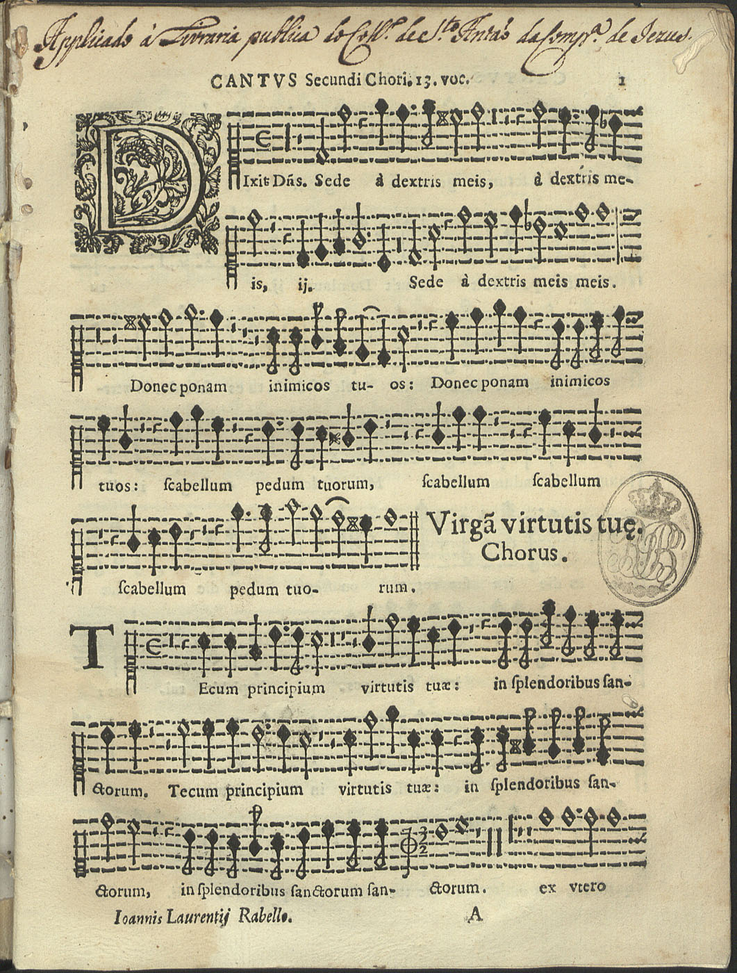 1657 edition of the Psalms by Rebelo, first page of the first volume: Cantus Secundi Chori. 13. voc. (Dixit Deus / Virgam virtutis tuæ / Tecum principium virtutis tuæ) On top of the page a written line reads: Applicado à Livraria publica do Coll.o de S.to Antão da Comp.a de Jezus.